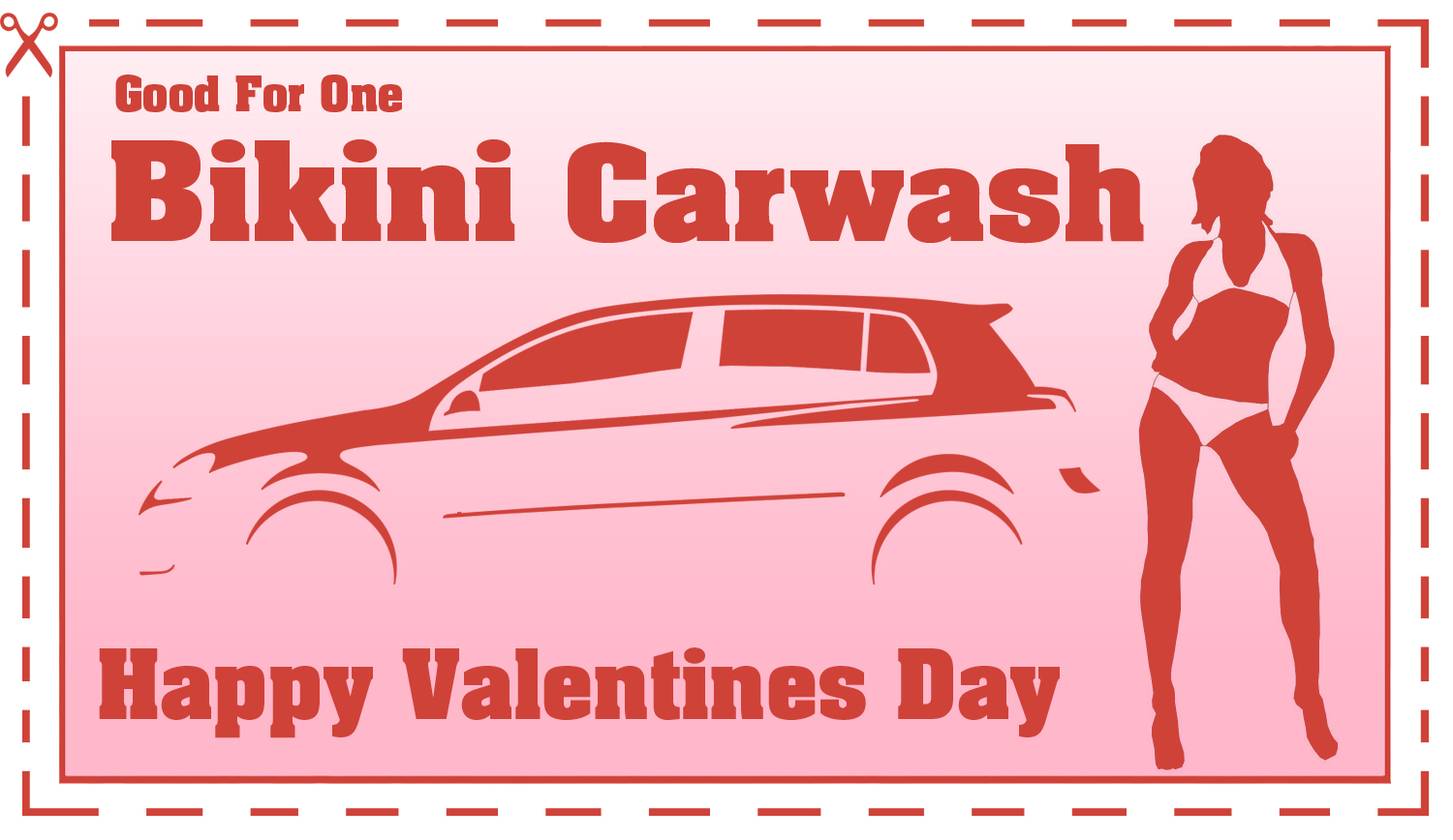 This Bikini Car Wash Coupon is the perfect Valentine's Day Gift for men. After all we like cars and not jewelry or flowers. Give the gift that keeps on giving.